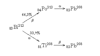 Cadeia de Desintegração